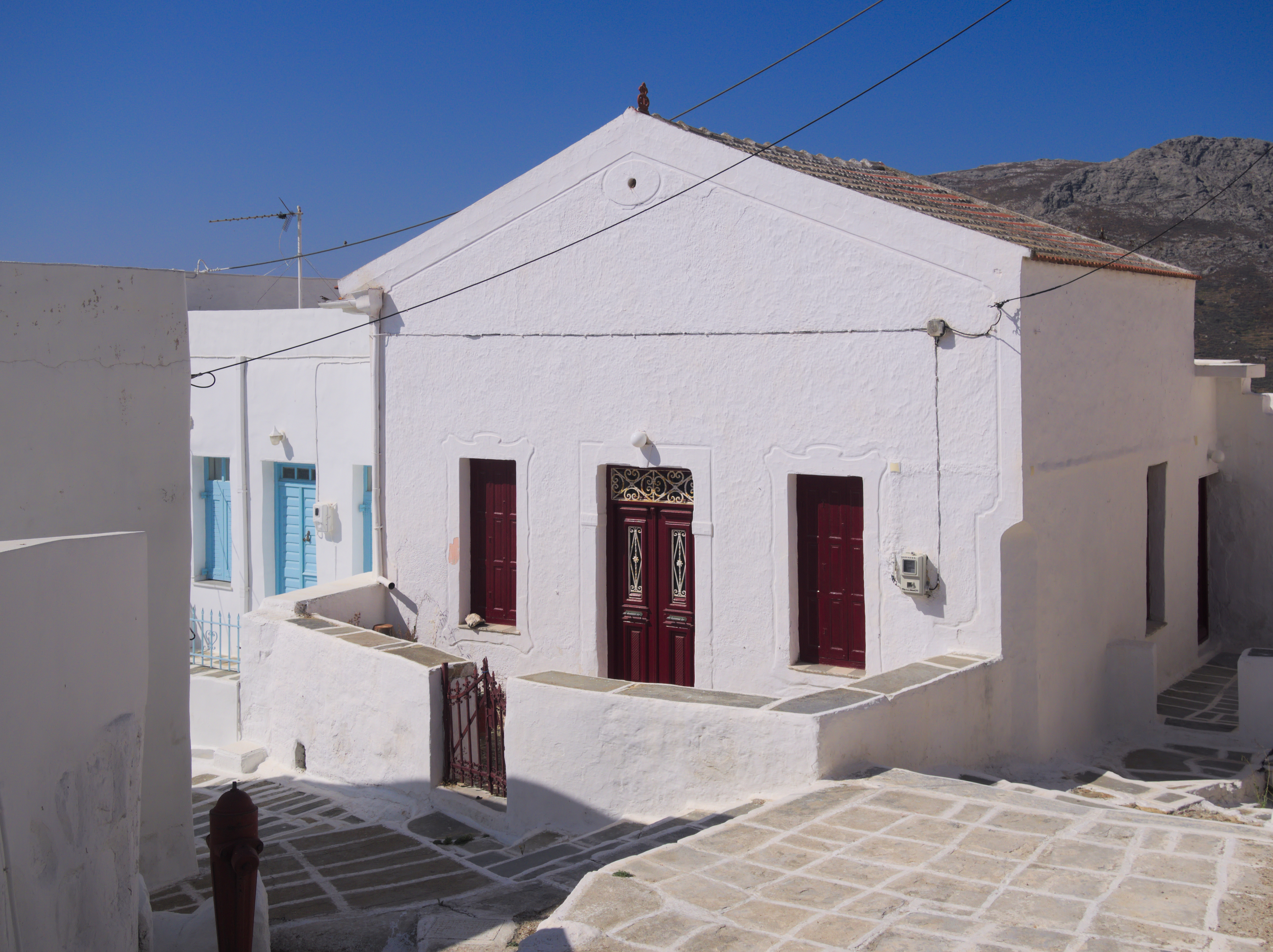 Neoclassic house at Chora of Serifos.